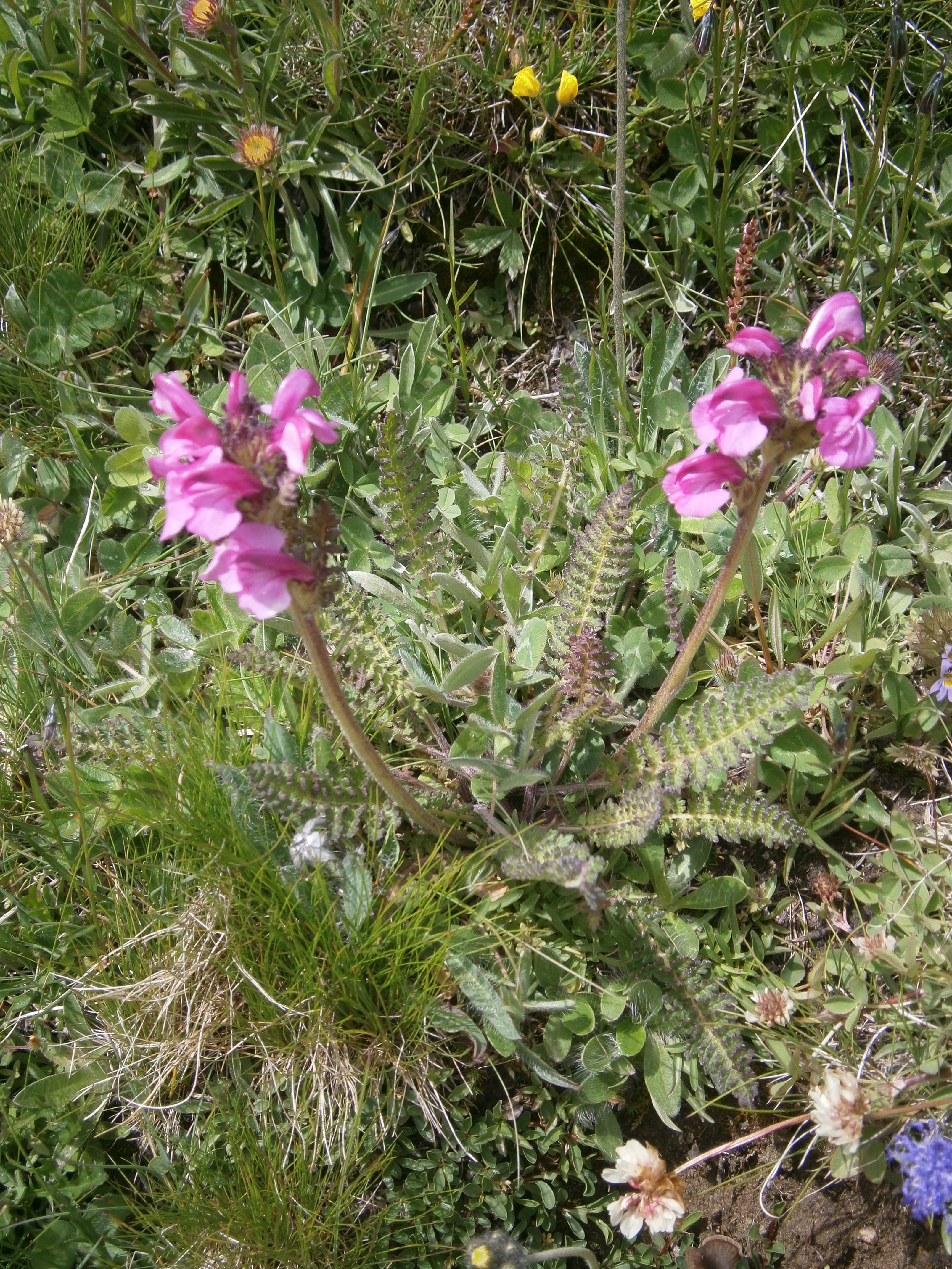 Pedicularis kerneri